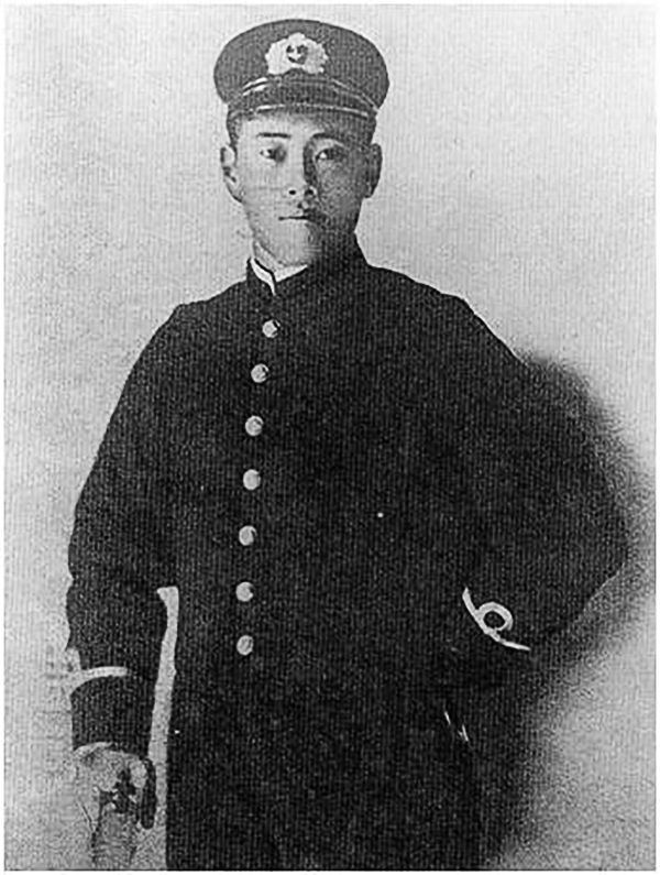 Isoroku Yamamoto In 1905 just before going into action during the Russo-Japanese War